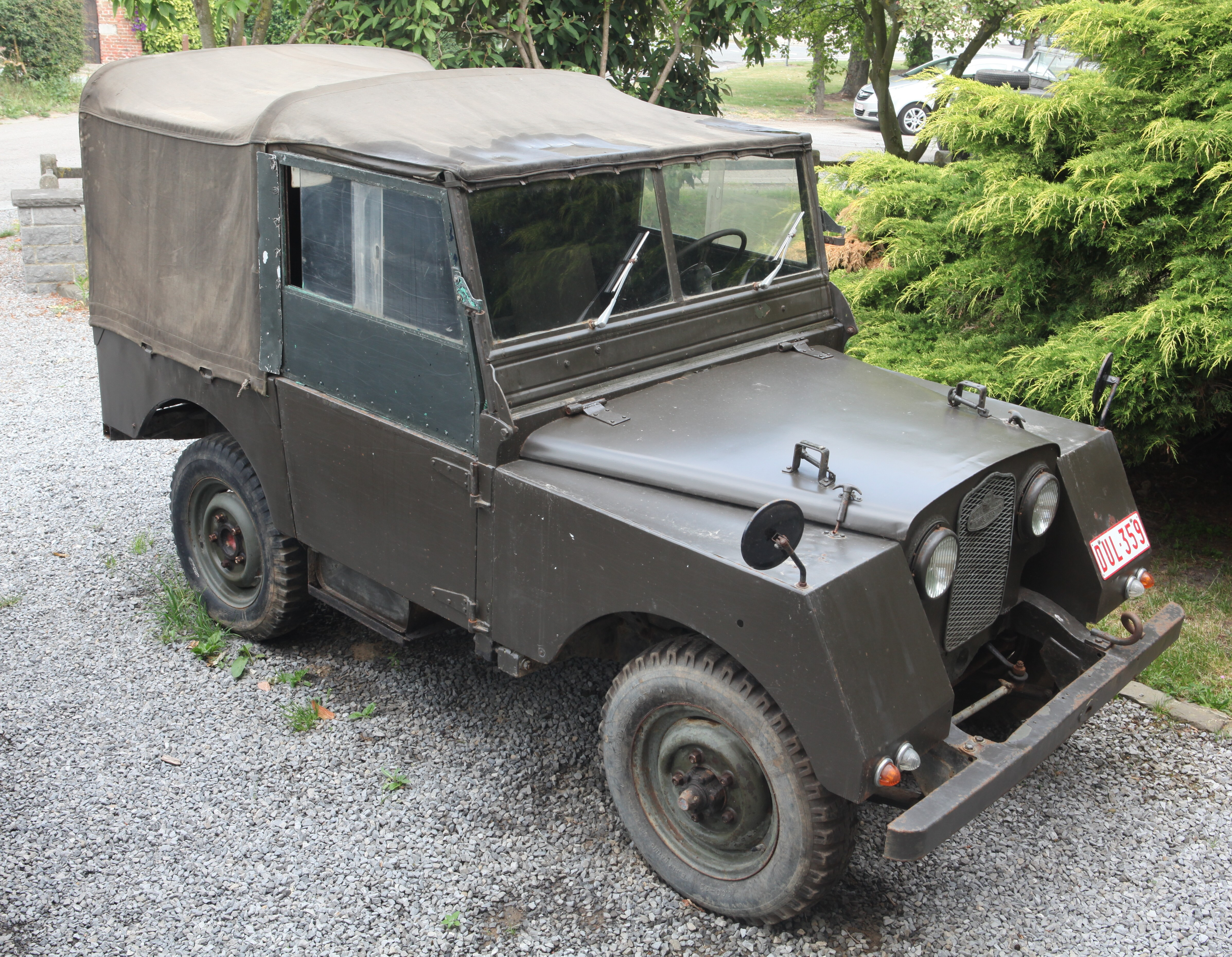 Minerva TT Land Rover